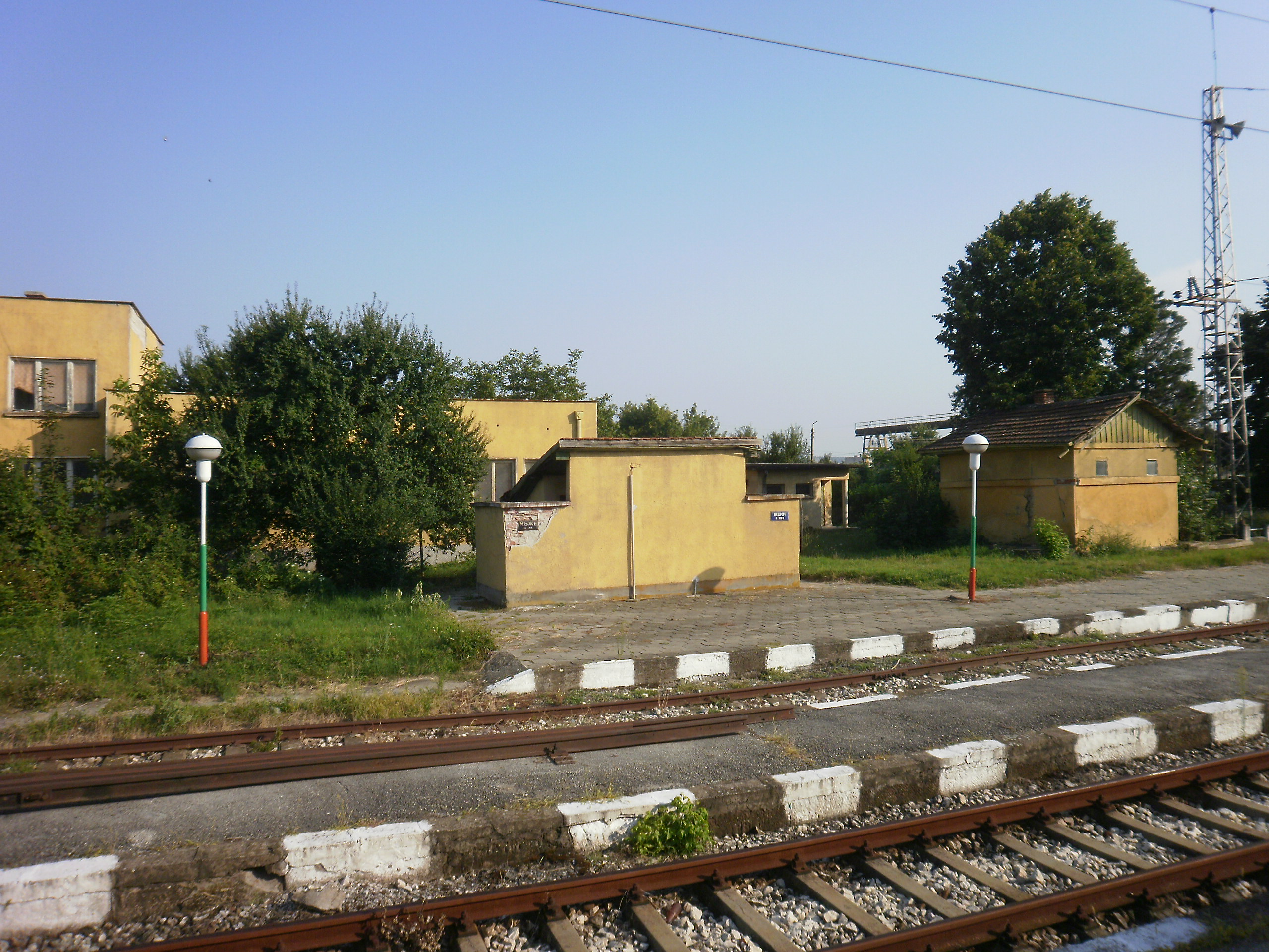 Telish Railway Station.